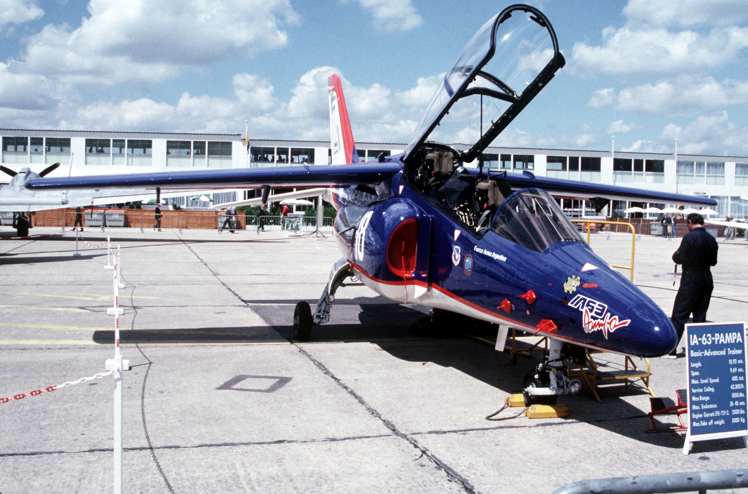 An Argentine air force IA-63 Pampa aircraft sits on display at the 1991 Paris Air Show in France.